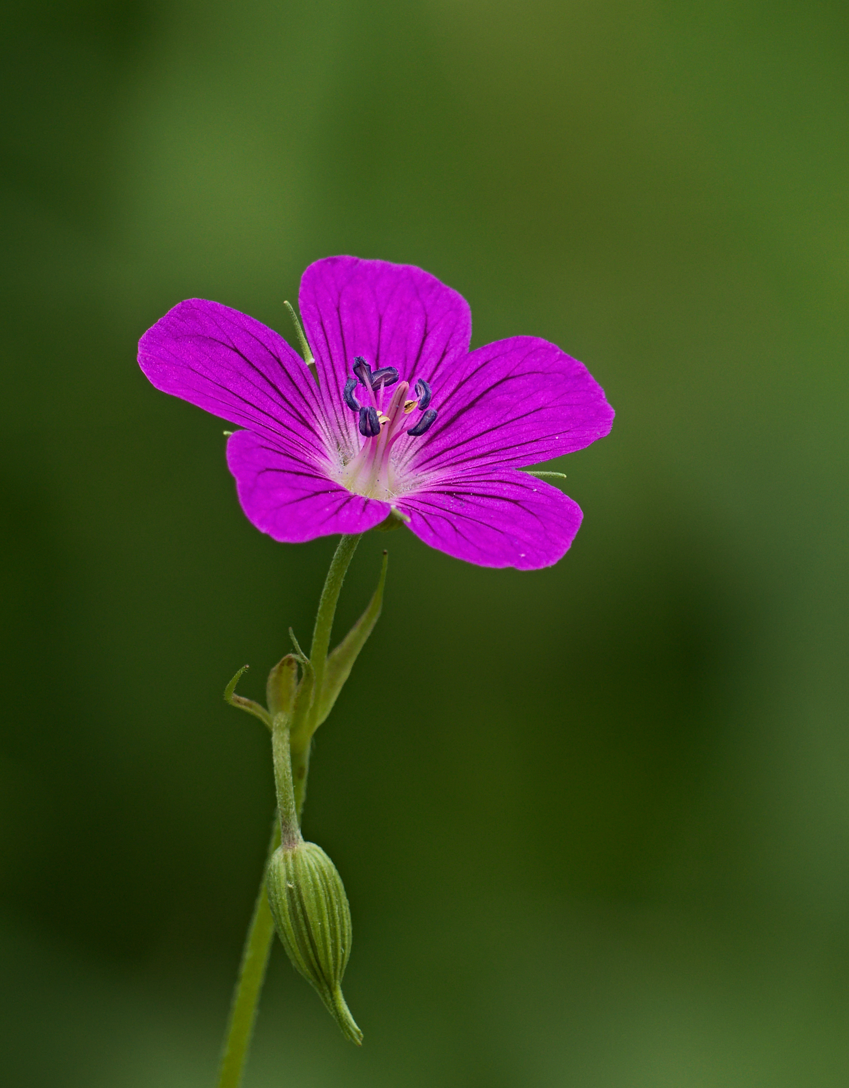 Geranium palustre. Taken by the Reinheimer Teich in Reinheim, Hesse, Germany.